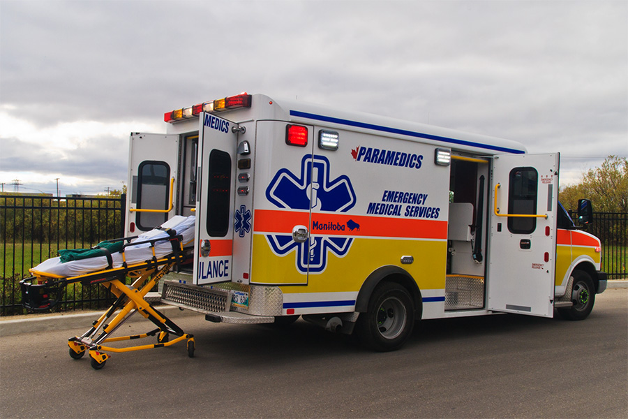 WEMS ambulance with cot Other information 3/4 rear view of typical Manitoba ambulance w/ Stryker Power-PRO™ XT cot